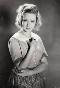 Hertha Thiele